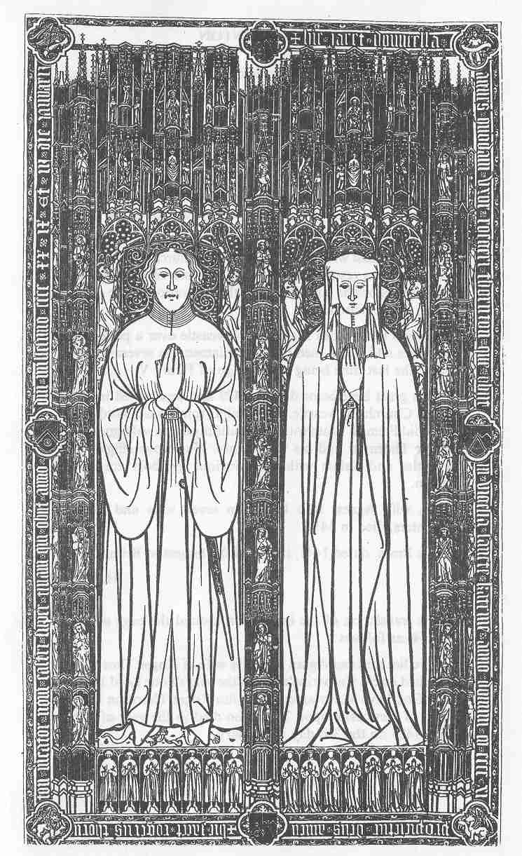 Brass Rubbing of the tomb of Roger and Agnes Thornton